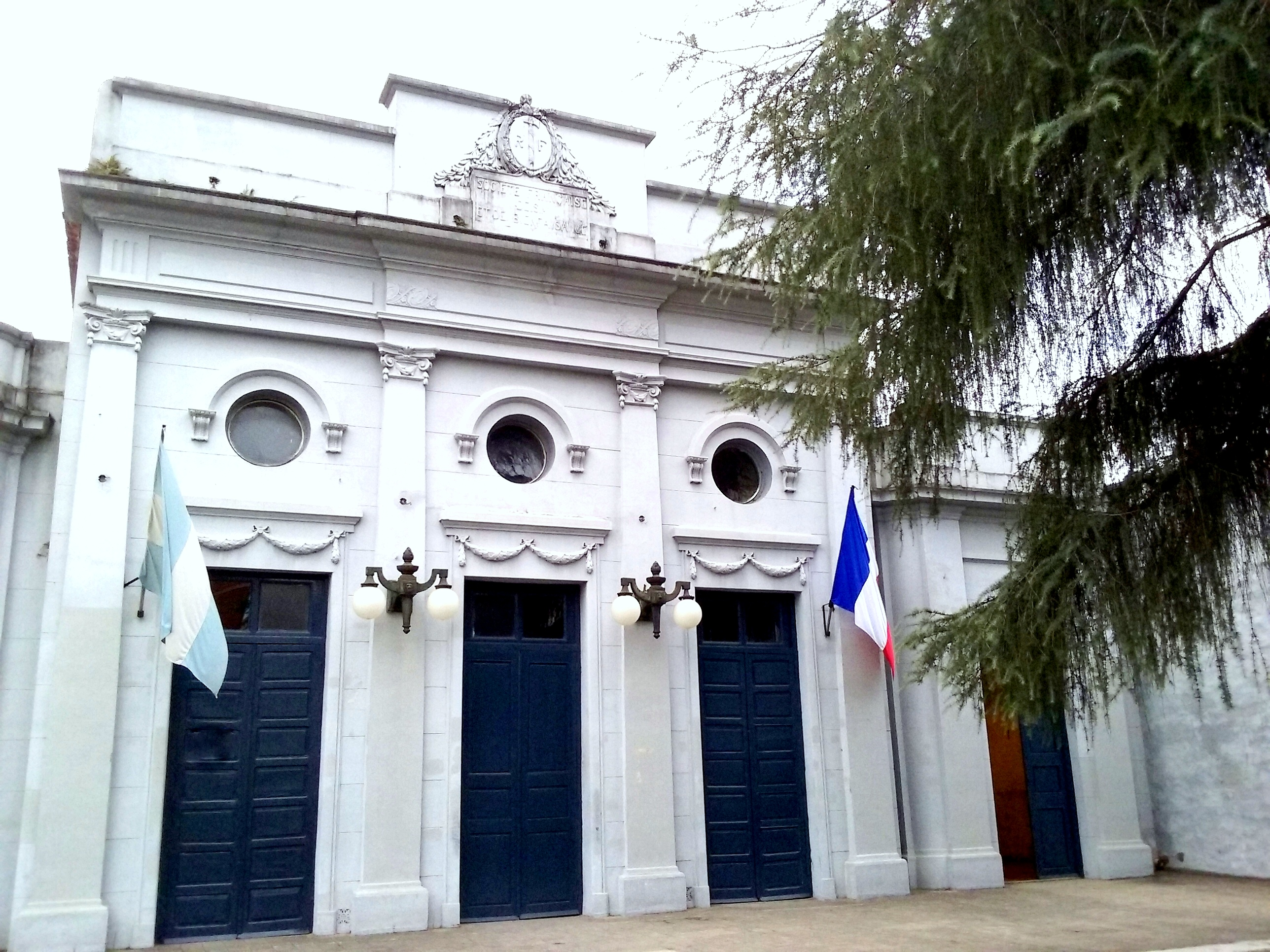 Building of Société Française de Tucumán. Tucumán. Argentina. 1879-2017. Oldest theater in town. Charity and mutual aid organization. Charity organization society.